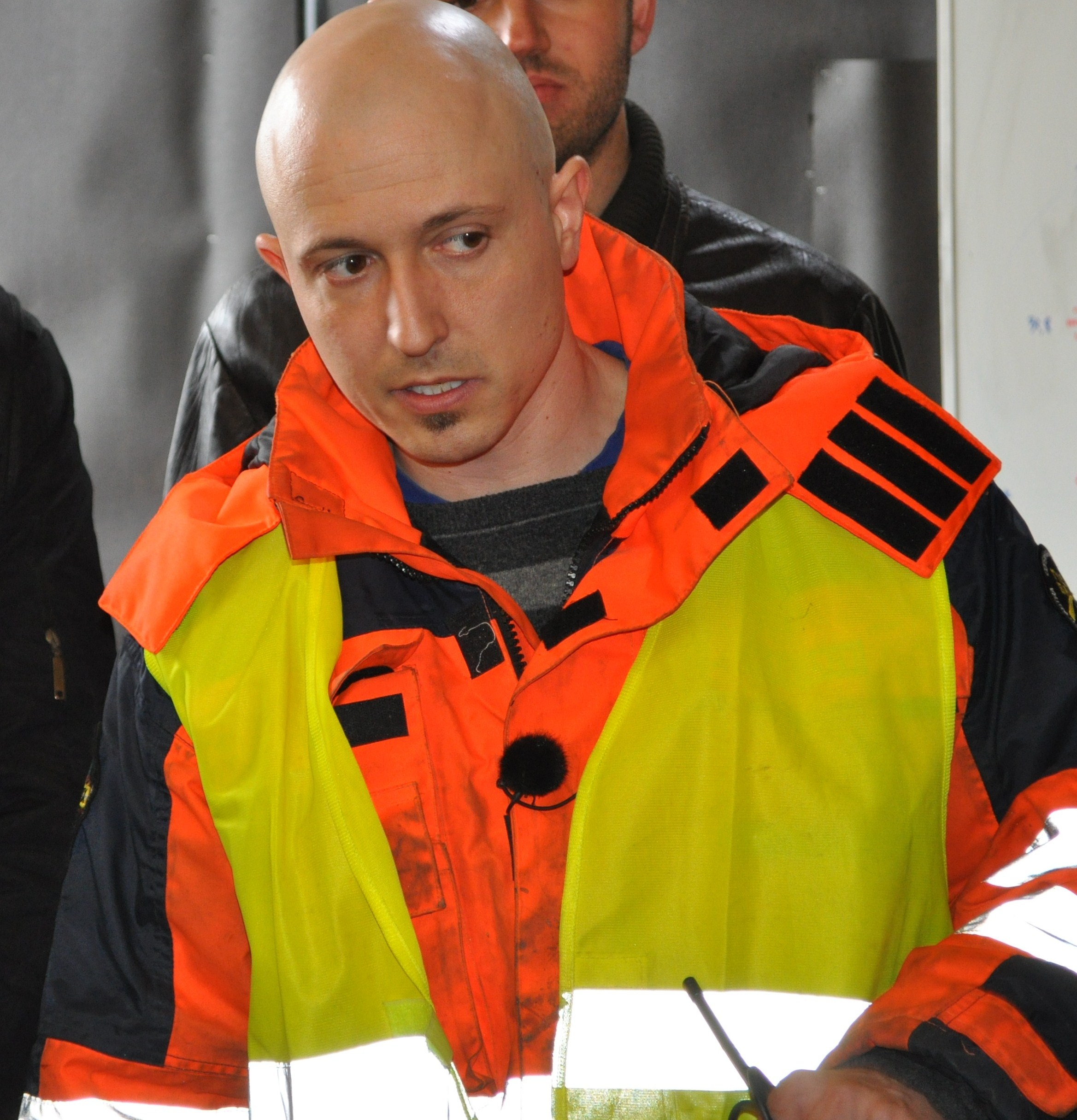 Kristian von Bengtson is a Danish architect, involved in space flight.